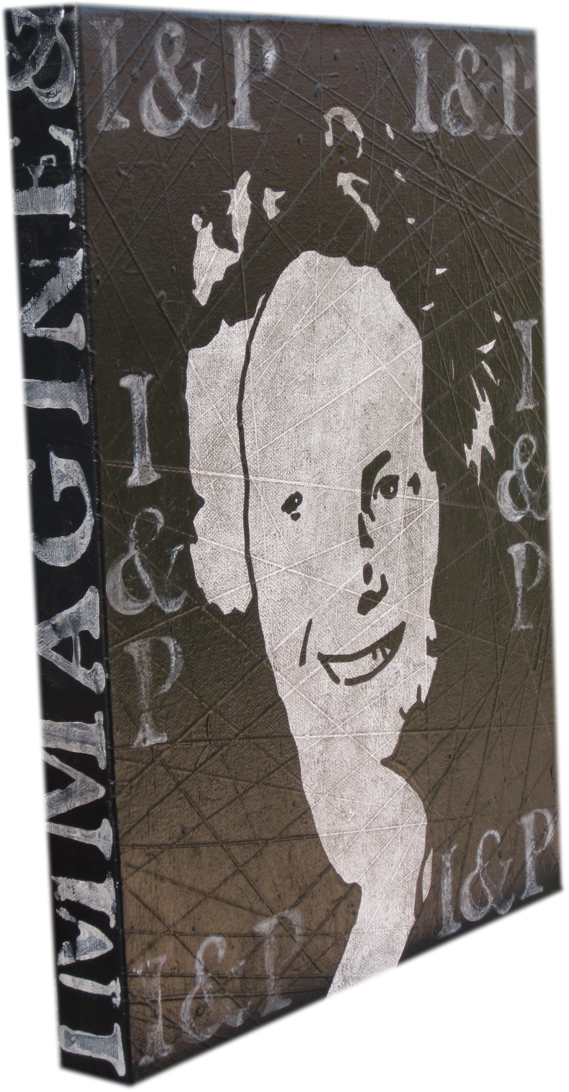 Tribute to Aeronwy Thomas made ​​by Davide Binello